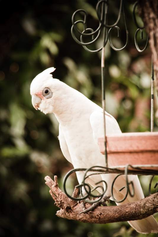 Little Corella (also known as the Bare-eyed Cockatoo) in Australia.